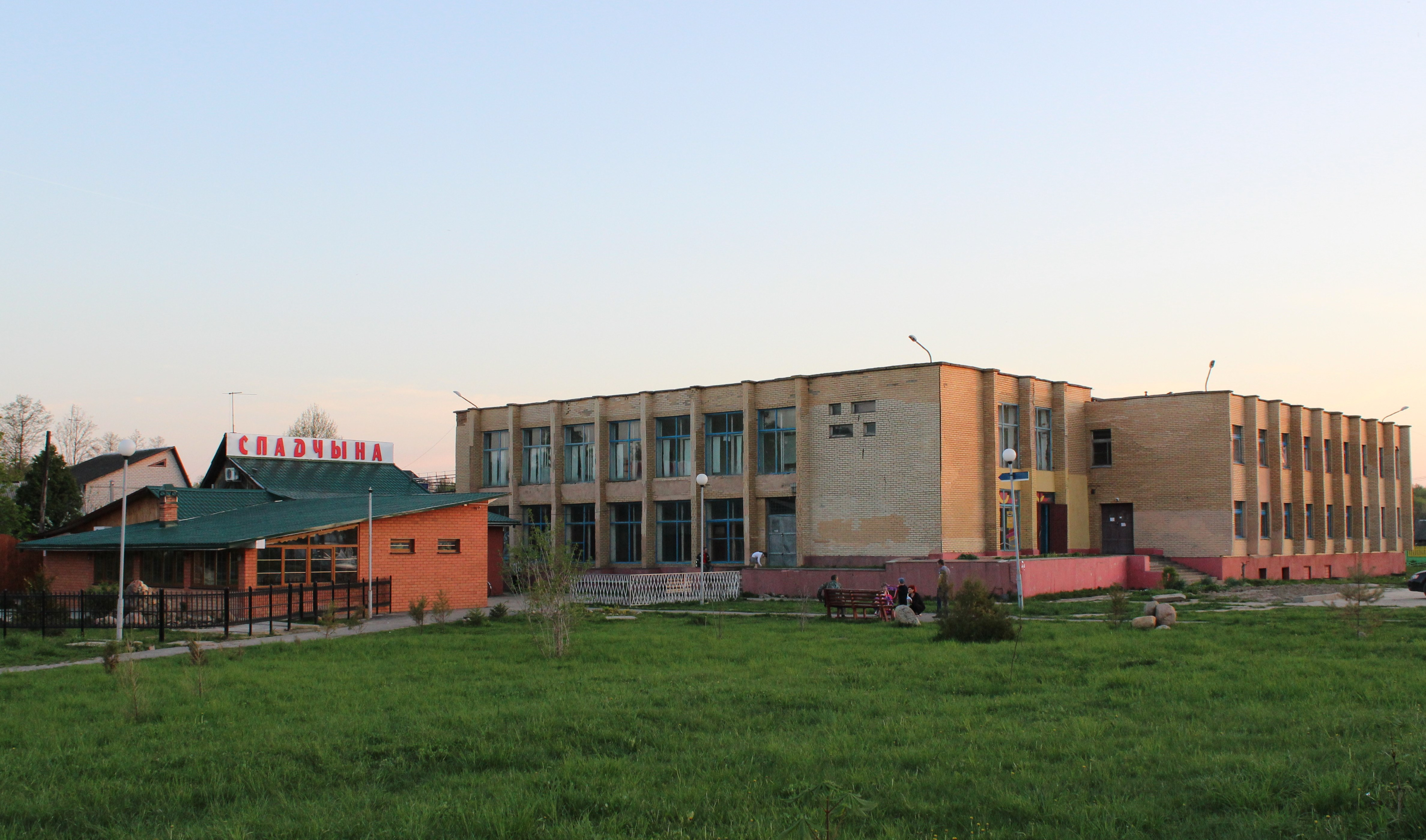 Center of Błoń, Puchavičy district, Minsk province